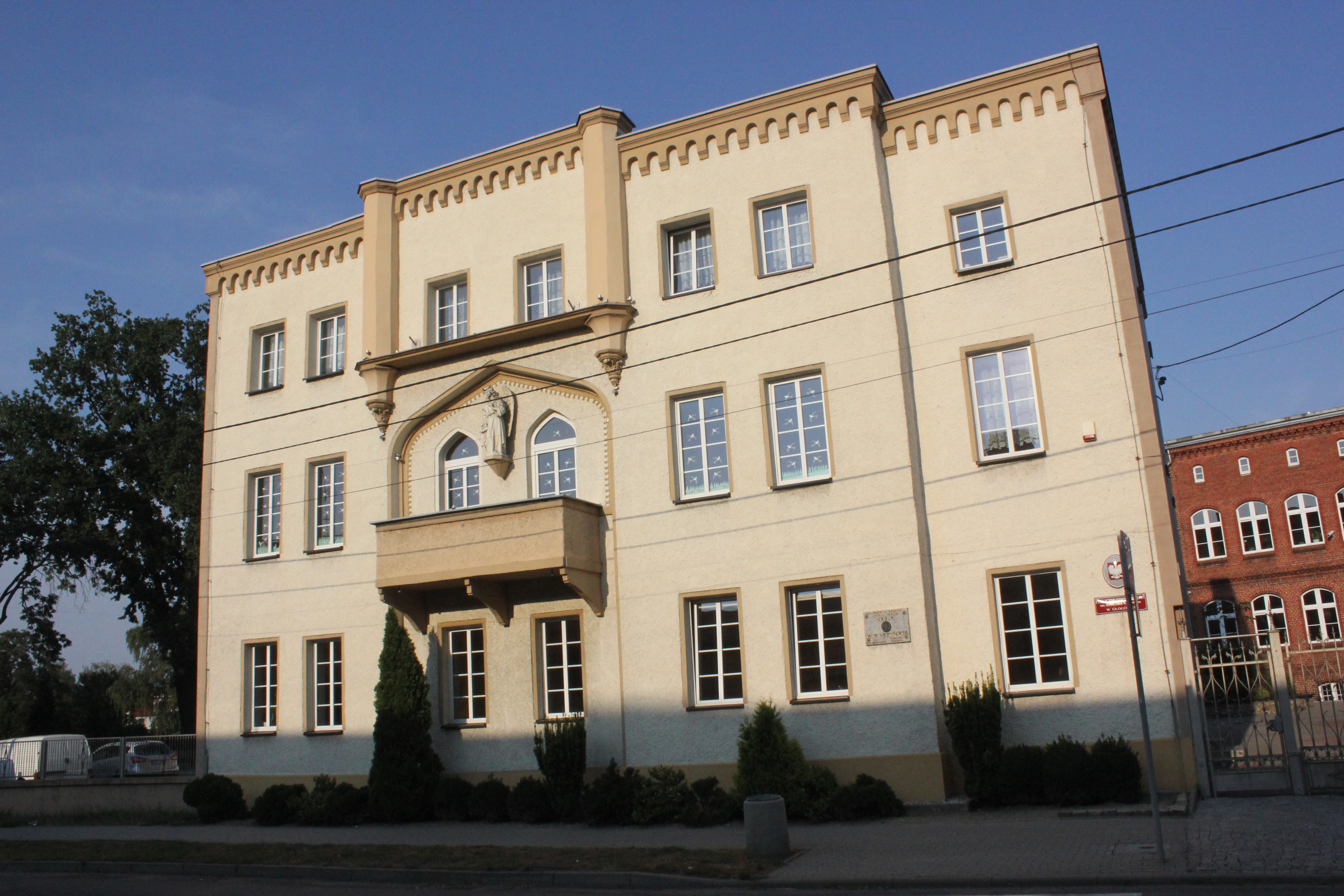 Głogówek - gymnasium